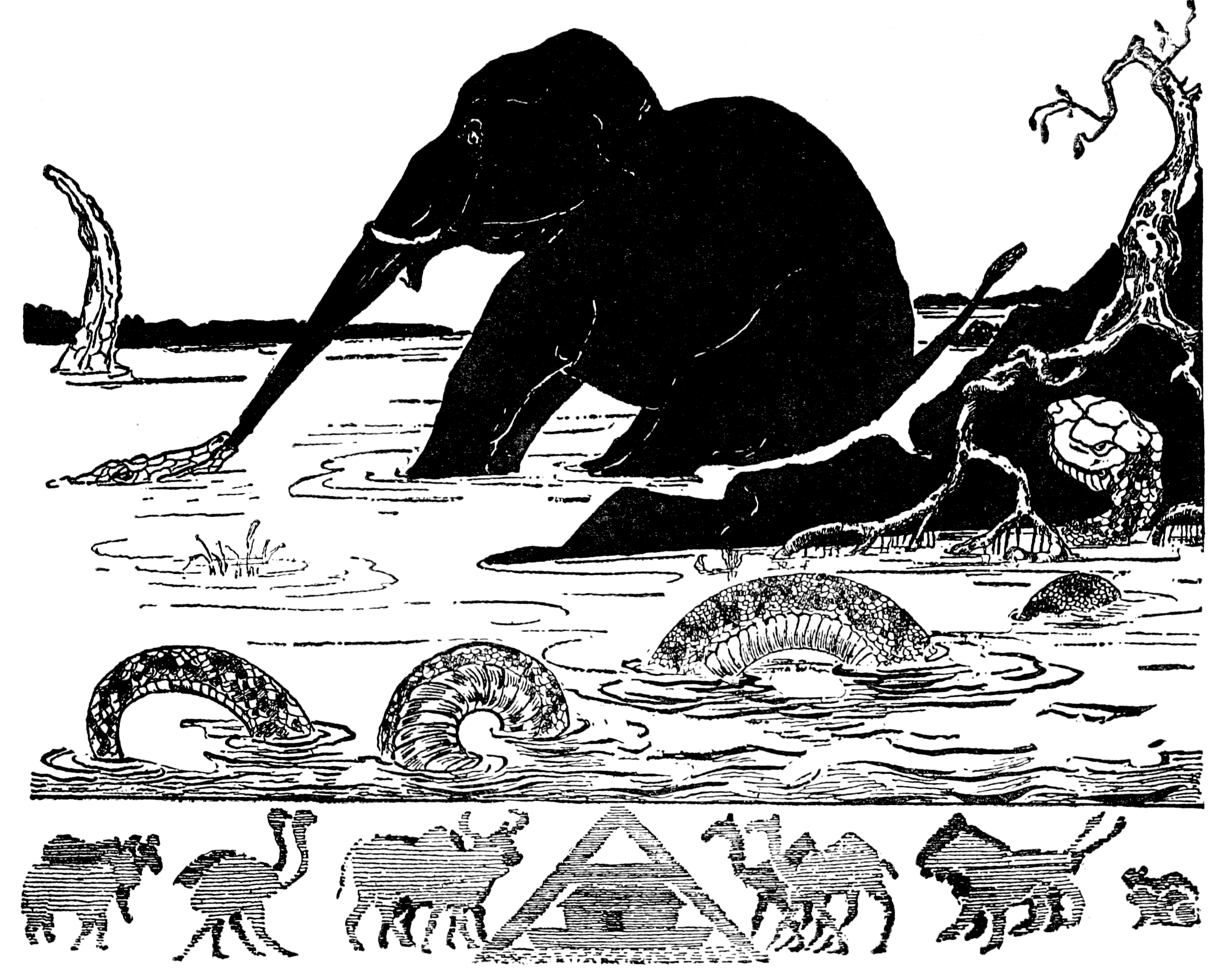 Illustration from a collection of short stories Just so stories (c1912) Garden City, NY : Garden City Pub. Co.